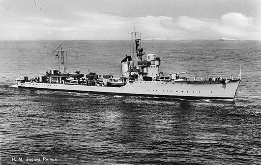 Postcard picture of the Swedish destroyer HMS Remus (28), former Italian Astore.